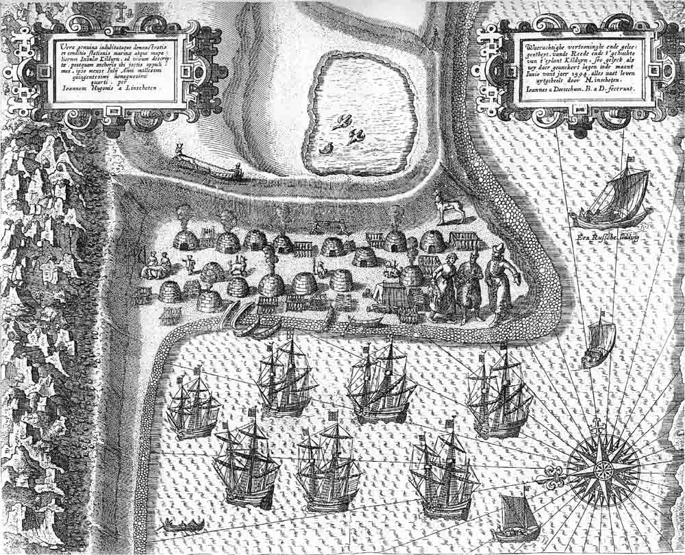 Map of Island Kildin from Barents' first voyage, 1594